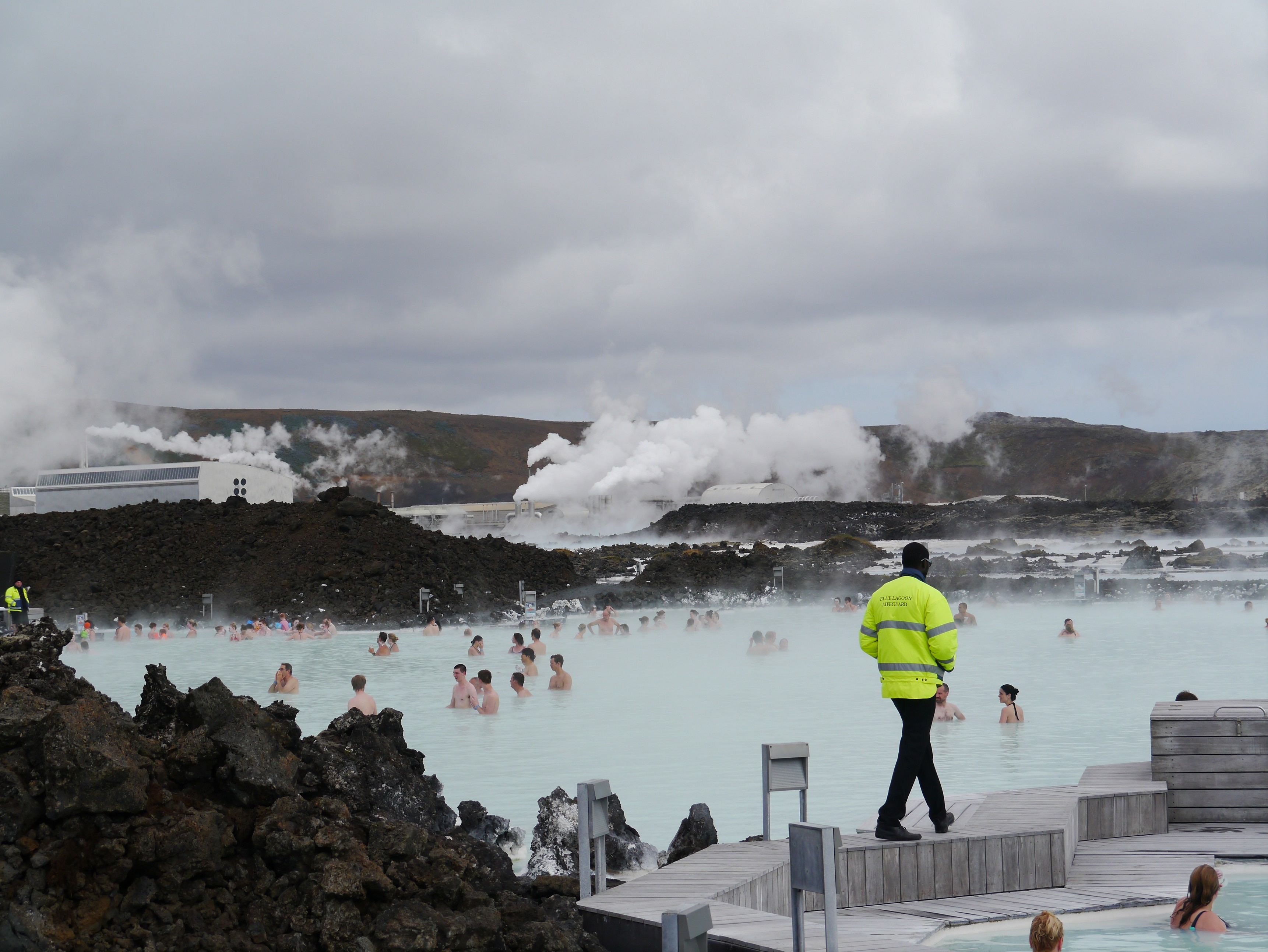 Blue Lagoon, Grindavík, Western Iceland